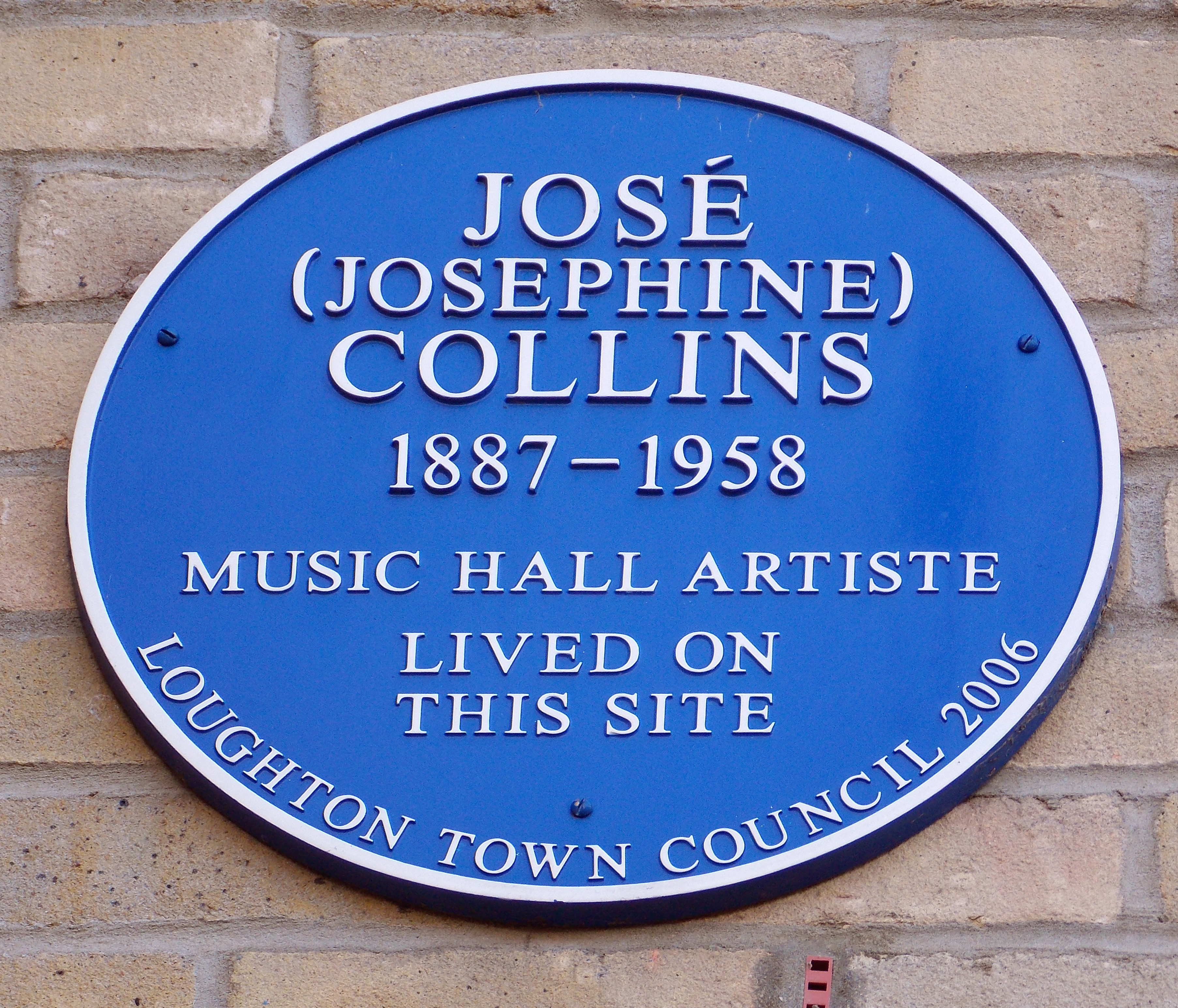 Jose Collins (1887–1958) blue plaque at Collins Court, 107 High Road, Loughton, Essex, England.